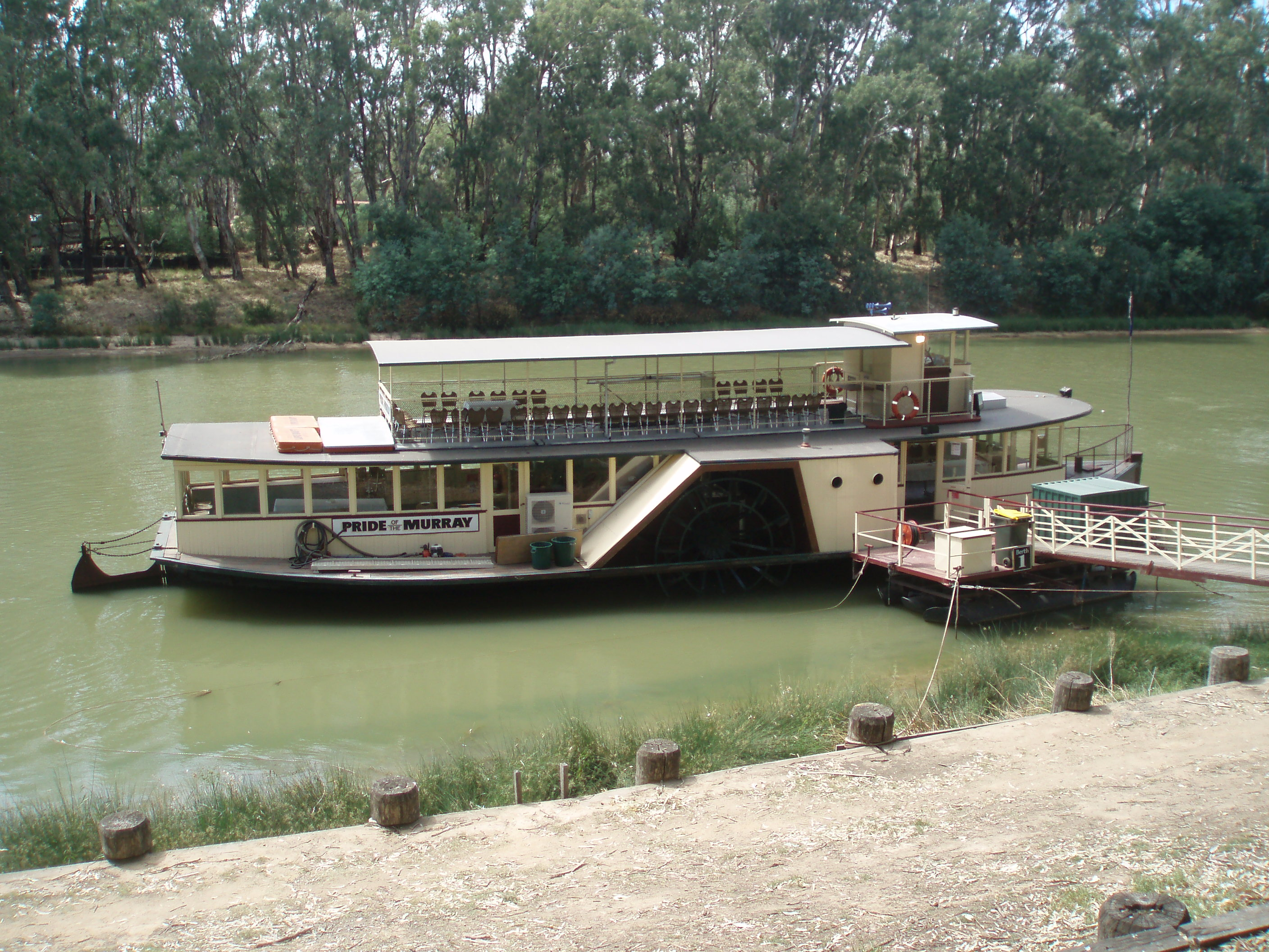 Diesel paddle boat Pride of the Murray on the Murray River at Echuca, Victoria. The Murray River forms the border between New South Wales and Victoria. The Port of Echuca was once a busy port.